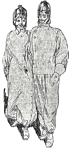 Costume Designed to Insulate People Against the Effects of Wireless Telegraphic Waves.